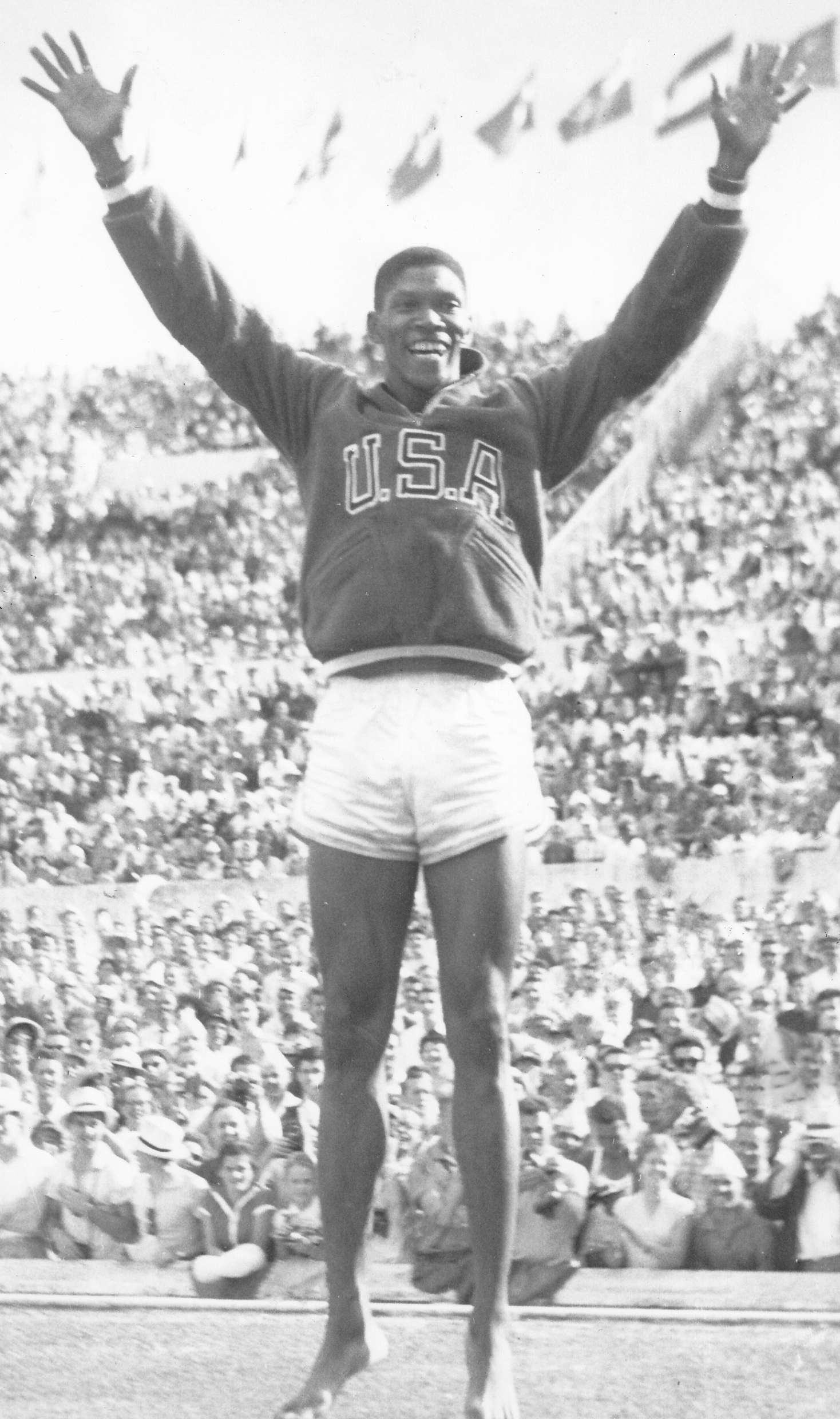 Otis Davis, 1960 Olympics